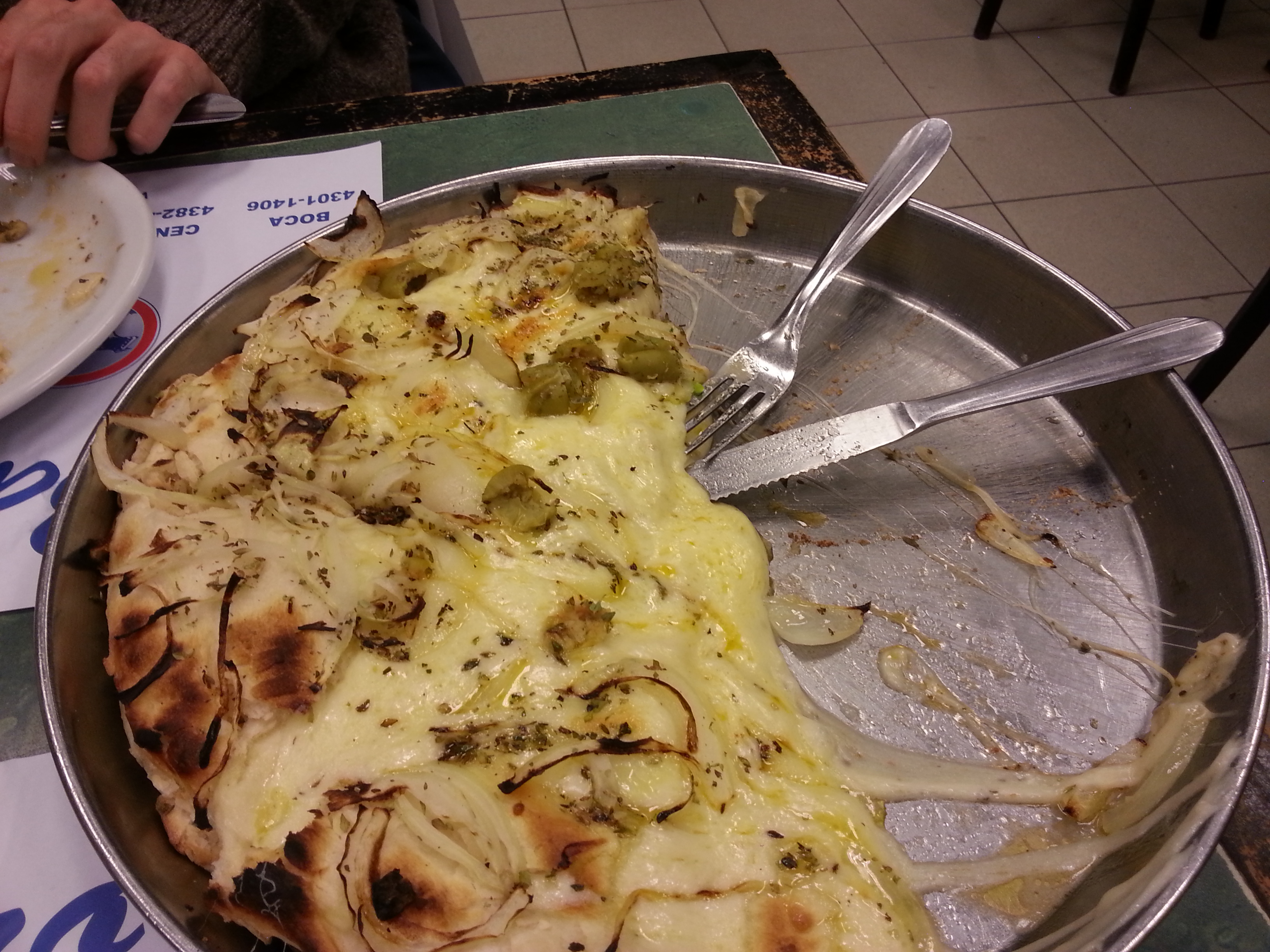 Pizza